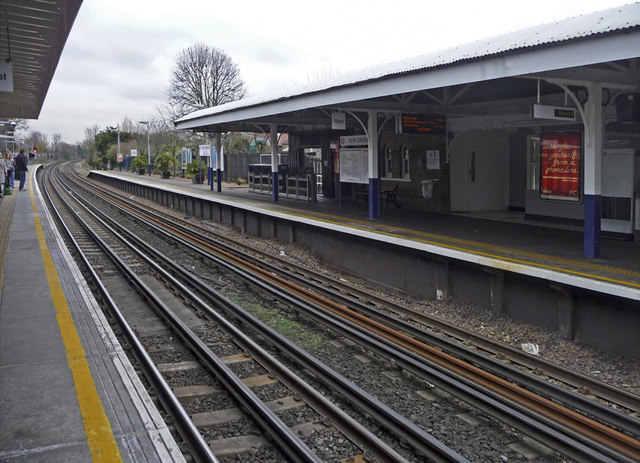 Northbound platform Kew Gardens Station Looking north along the northbound platform of Kew Gardens Station. The station is shared by the District Line and the Overground service.